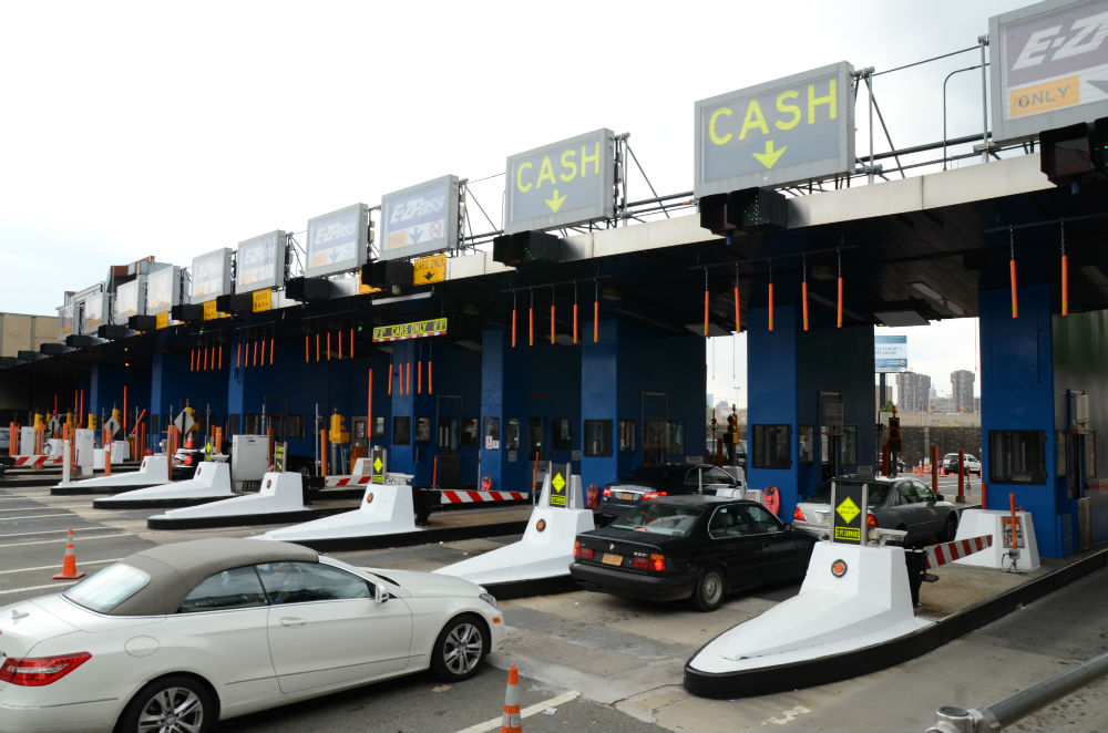 MTA Bridges and Tunnels is sprucing up its toll plazas, repainting toll booths at all nine crossings a uniform and familiar color, MTA blue. The actual color is called “safety blue” but it happens to also coincides closely with the color of the MTA logo. The last time all 150 toll booths and their surrounding concrete islands, curbs, and bullnoses were painted was 2001. Photo: Metropolitan Transportation Authority / Oscar Gonzalez.